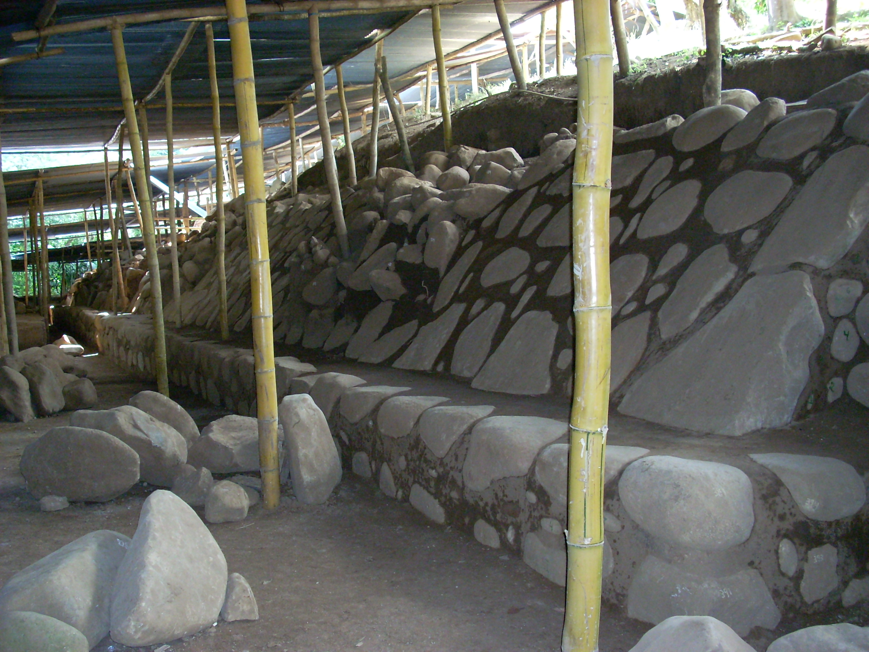 Restored section of the ballcourt, Takalik Abaj.